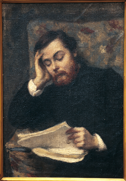 Ref.: PMa_B_572_Tournai; Portrait de Charlier; Portrait de Charlier; Eugène Broerman; Musée des Beaux Arts; Tournai; Belgium; Hainaut; Cultural heritage; Cultural heritage|Painting; Europe|Belgium|Tournai-Doornik; ; © Paul M.R. Maeyaert